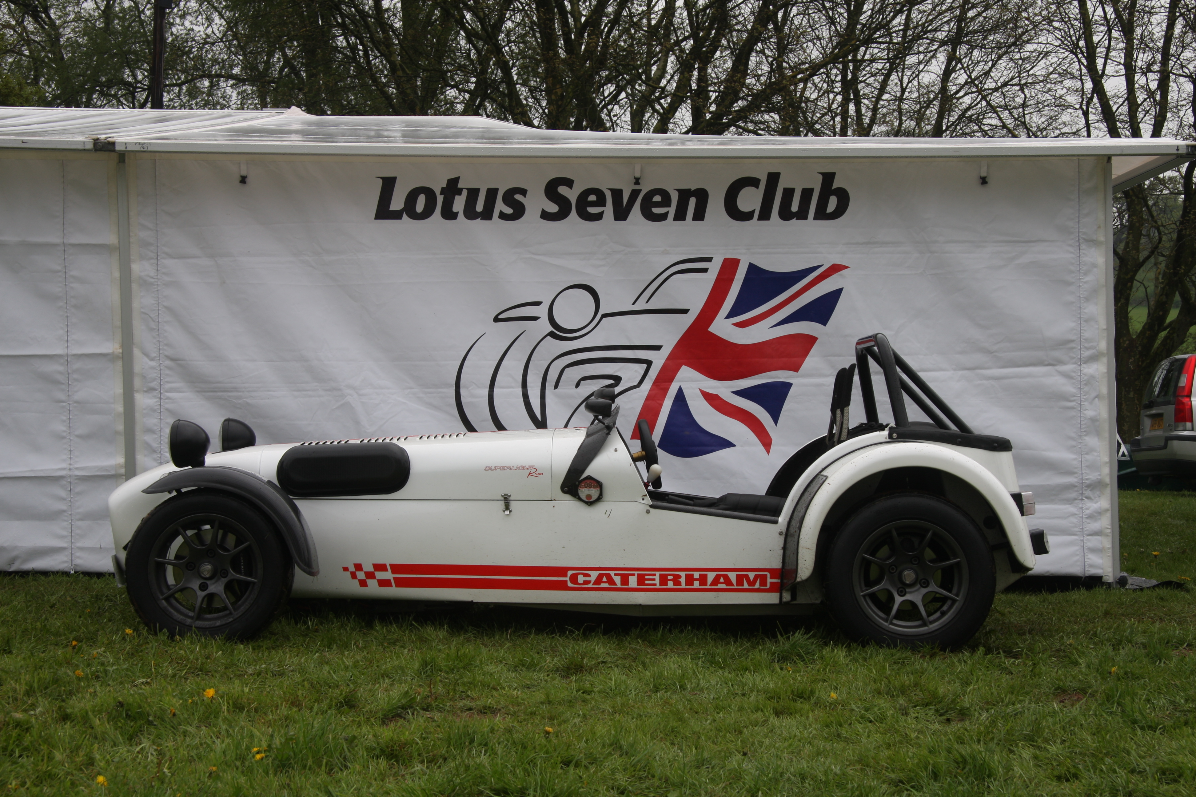 Lent by Caterham to the Owners' Club for the Stoneleigh Show